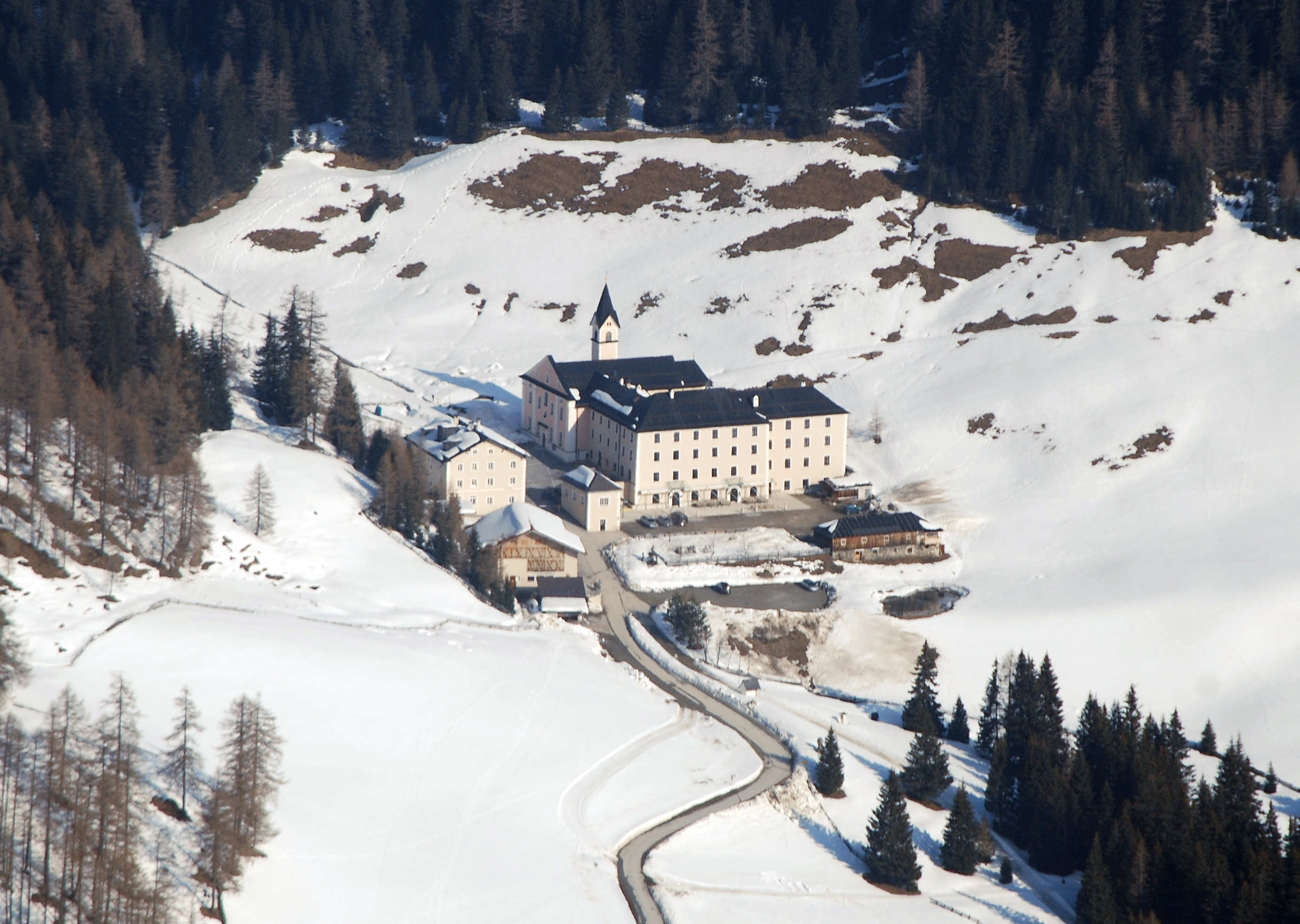 Maria Waldrast from S (Blaser)